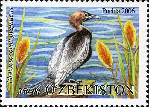 Stamps of Uzbekistan, 2006